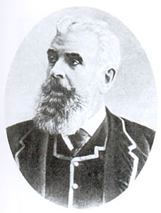 Guido Graf Henckel von Donnersmarck (1830-1916). Since 1901 he had the title Fürst. His most important palace was in Świerklaniec.